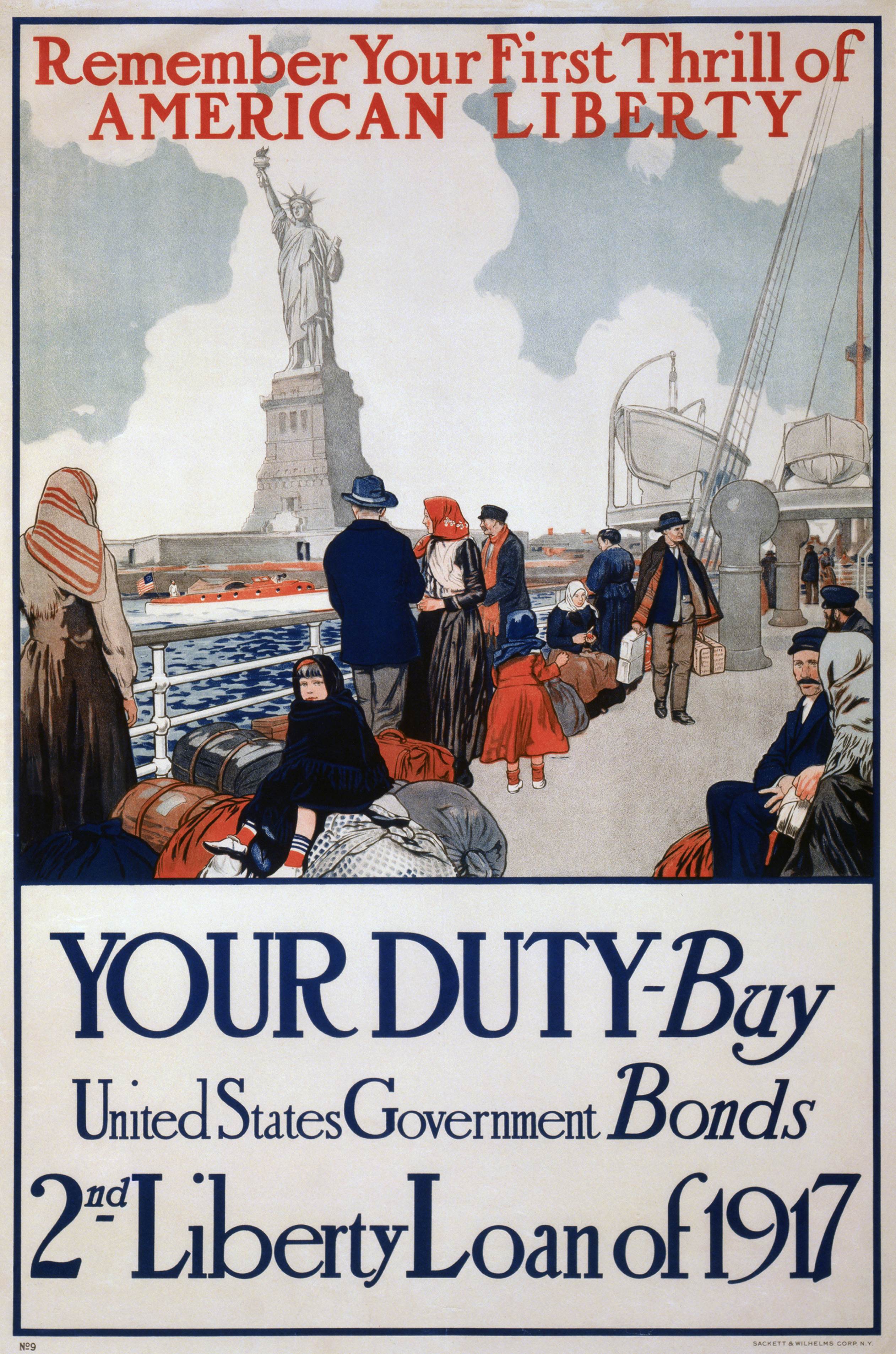 A 1917 poster advertising US Government bonds. The poster depicts immigrants on a ship, sailing past the Statue of Liberty.